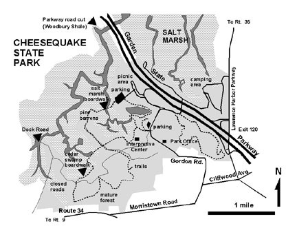 USGS map of Cheesequake State Park — near Old Bridge Township, in Middlesex County, New Jersey.